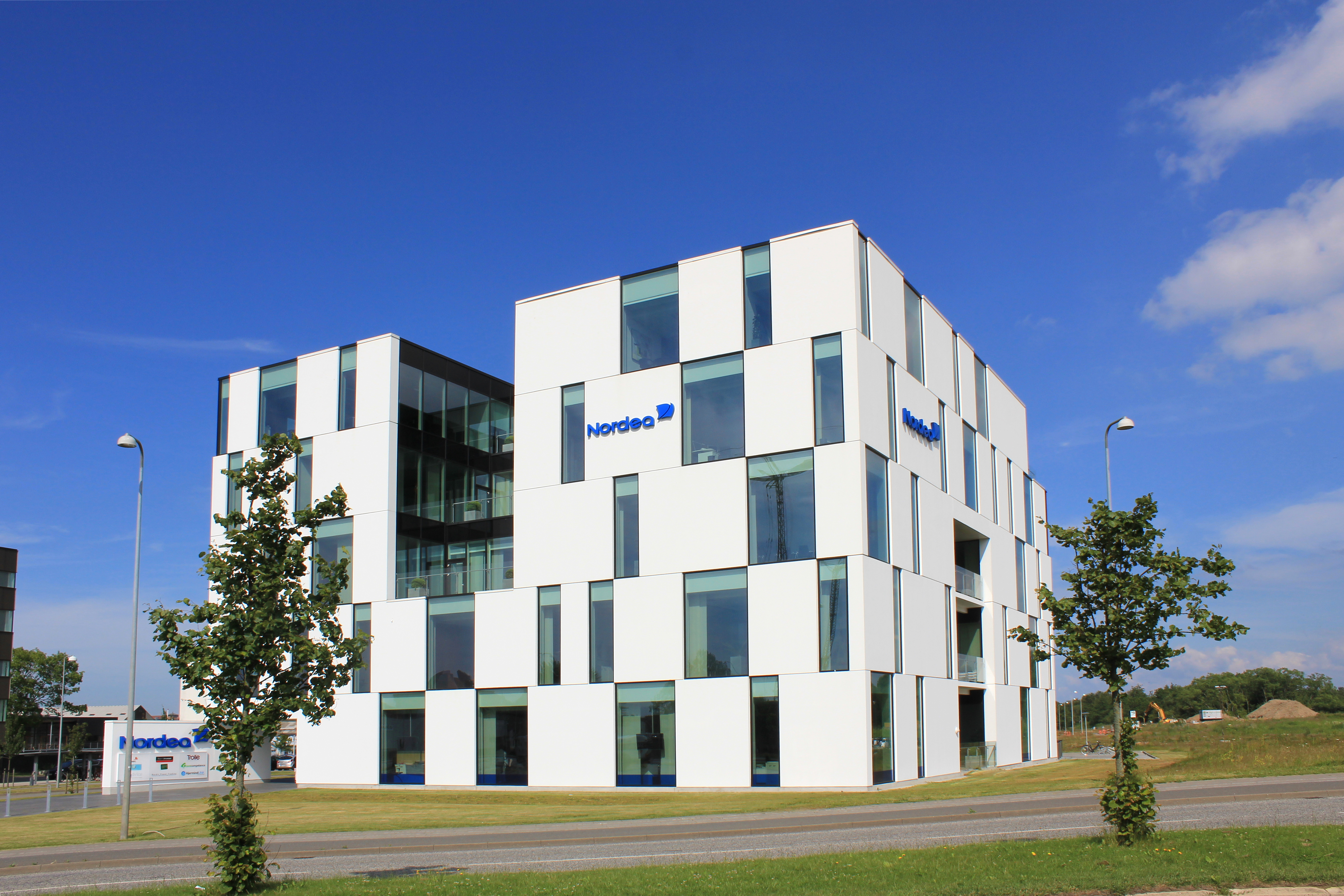 Office building in Design City Kolding. Kolding Åpark 2. Contains 4.496 m2 and is oriented exactly after north,south,east and west. Buildt in 2010.